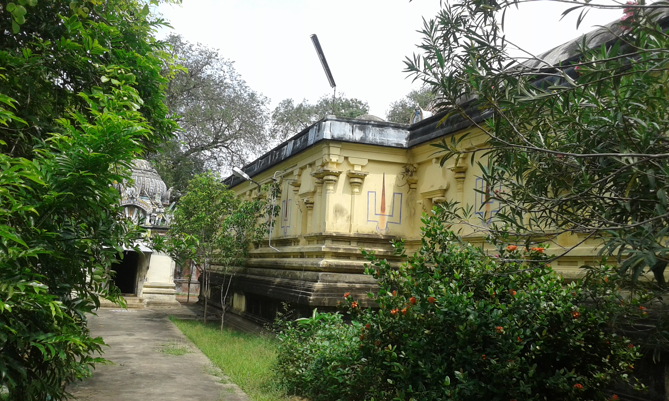 Thiruchsemponsey